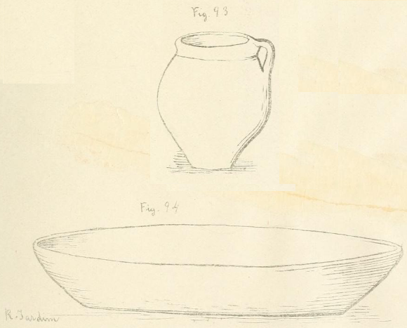 Unguentarium vase and a plate, used in funerary rituals, found on a roman grave at the Monte Molião (Molião Hill) archaeological site, near the city of Lagos, in southern Portugal. This image was extracted from Boletim da Sociedade Archeologica Santos Rocha magazine, number 3, published in 1906, and available from the Internet Archive website.